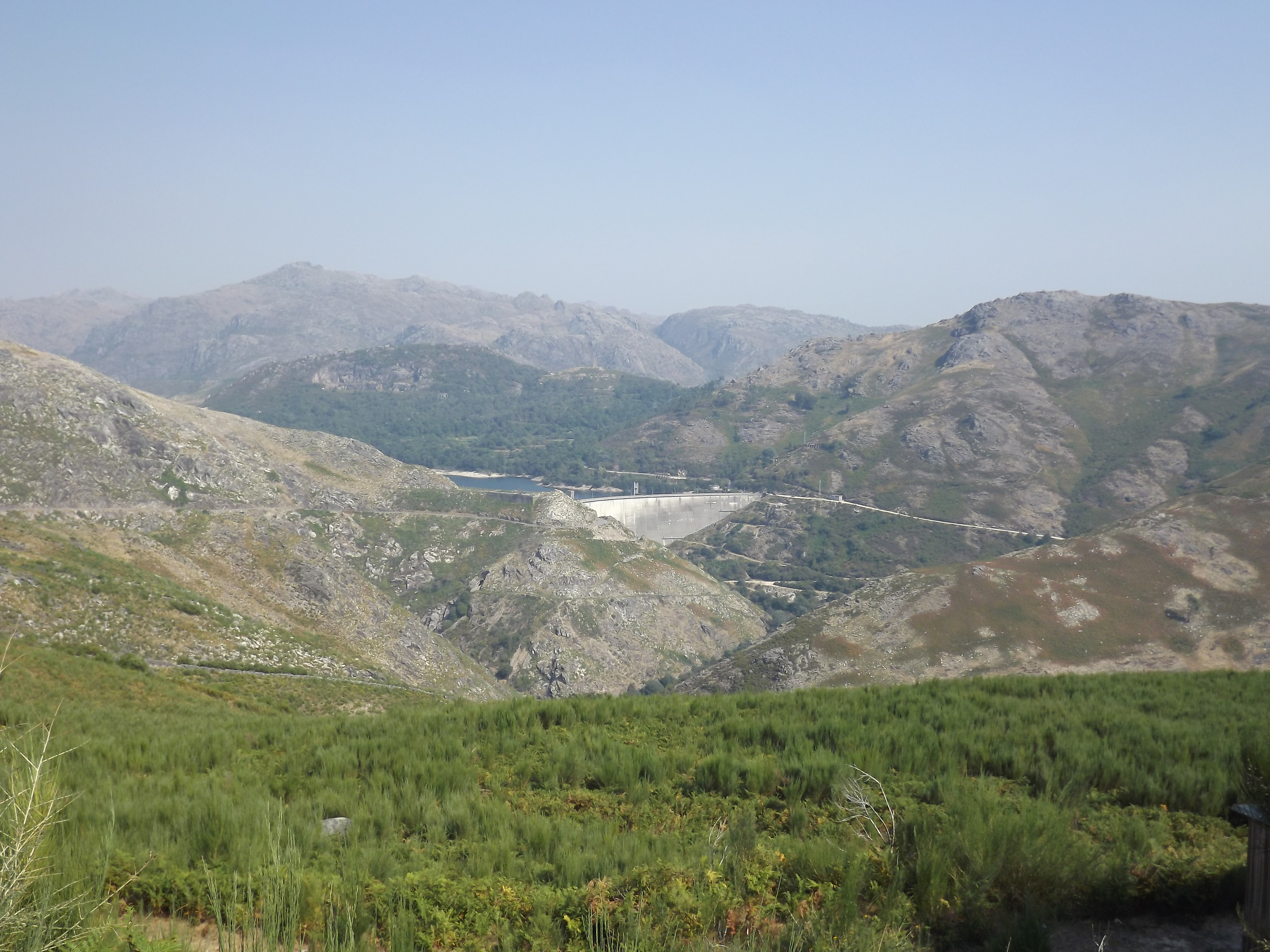 Vilarinho das Furnas Dam